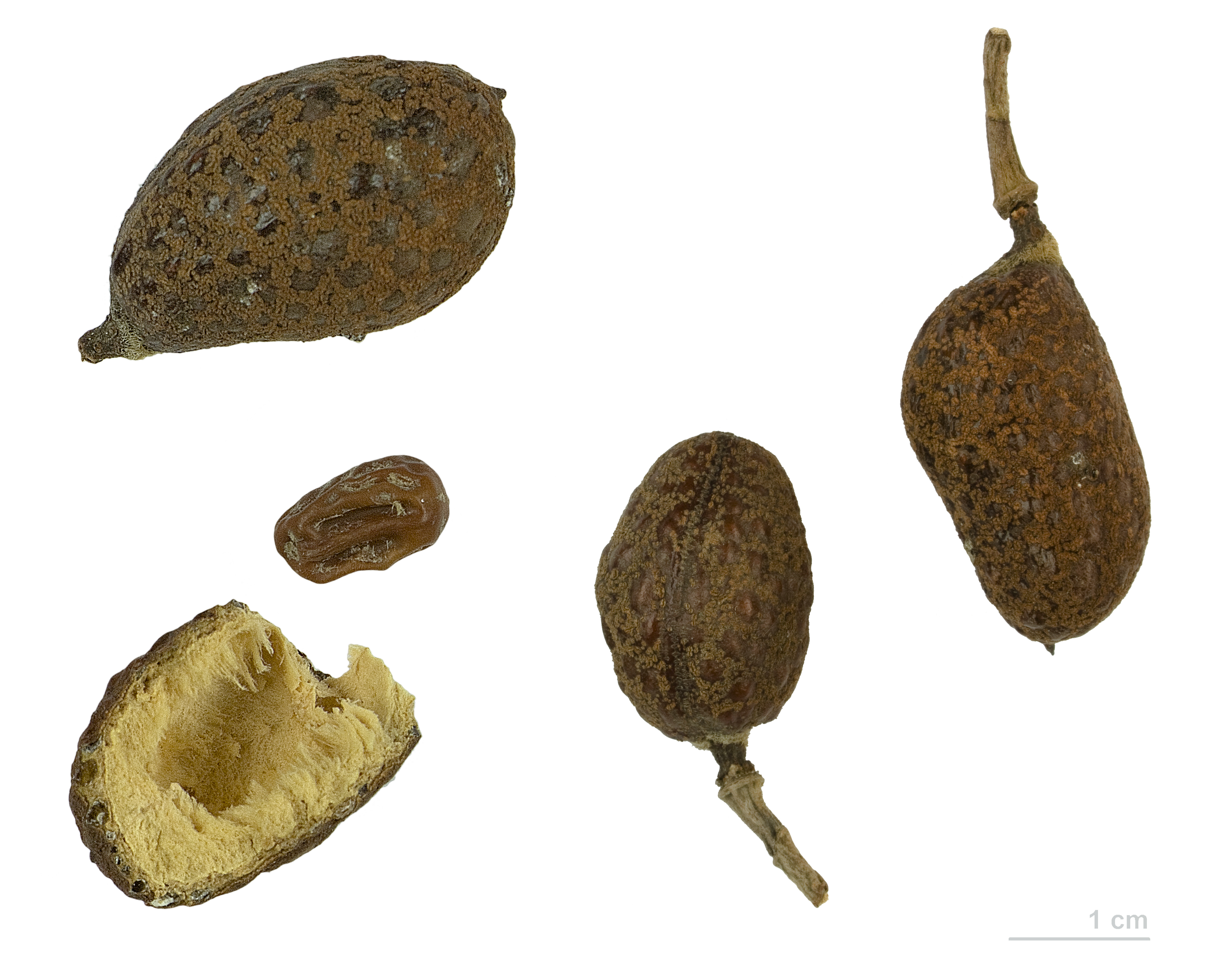 Zanzibar copal, Amber tree , fruits and seeds